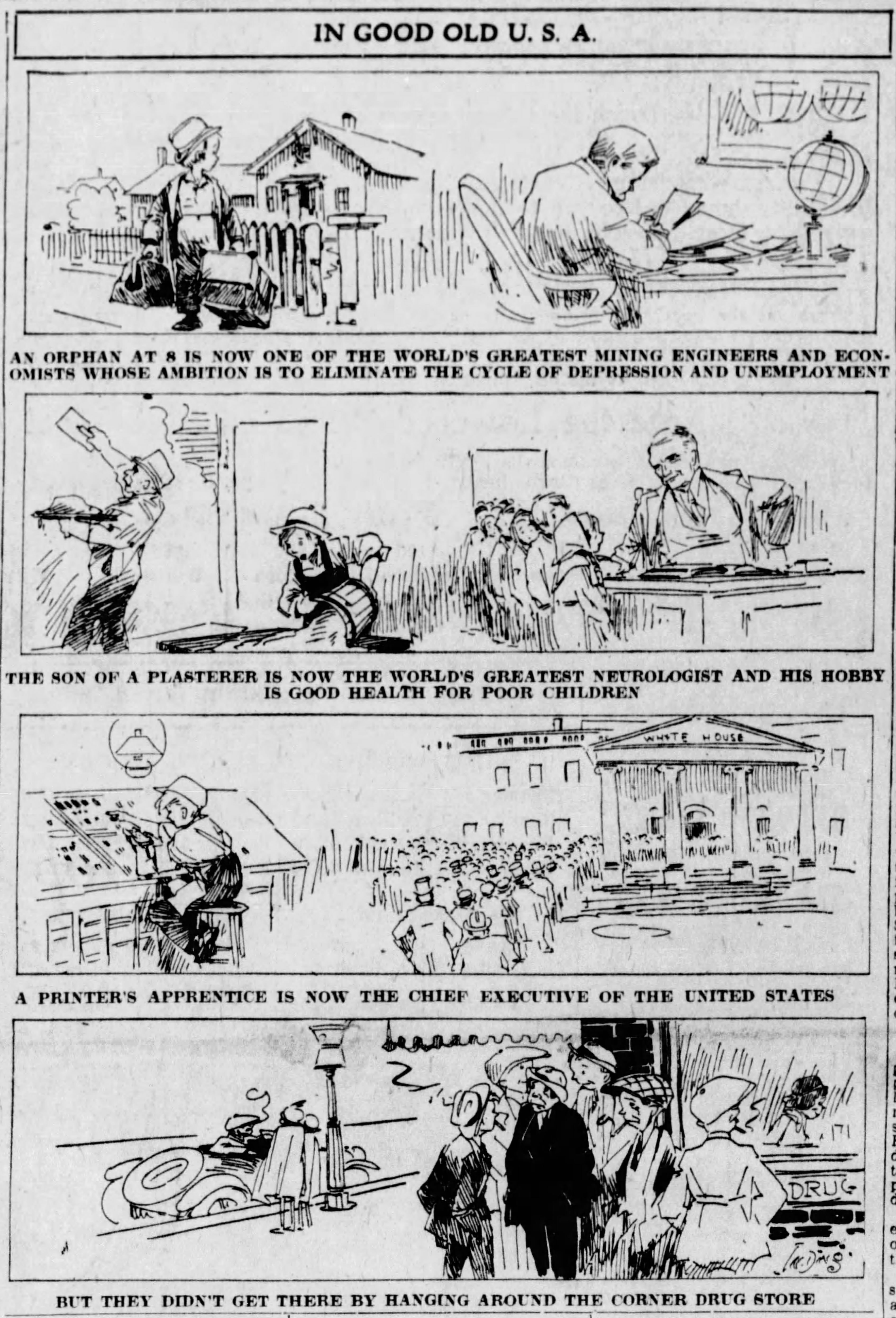 "In Good Old U.S.A.", editorial cartoon that won the 1924 Pulitzer Prize for Editorial Cartooning